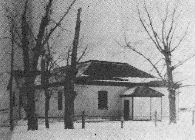 A The Church of Jesus Christ of Latter-day Saints in Stirling, Alberta, Canada